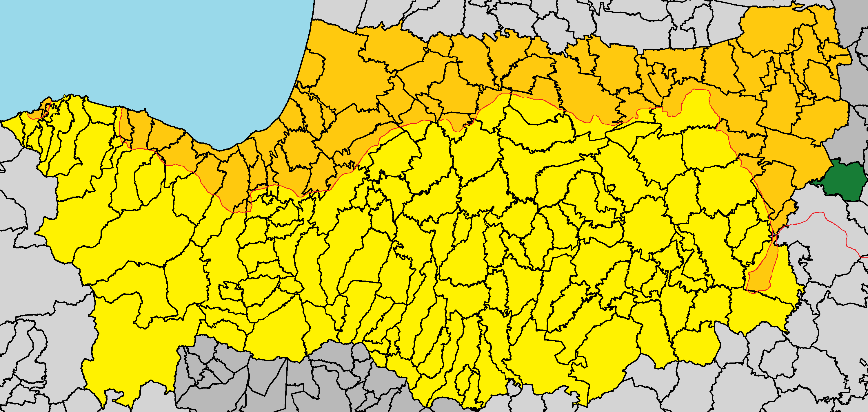 Agia in Nicosia District (de jure).